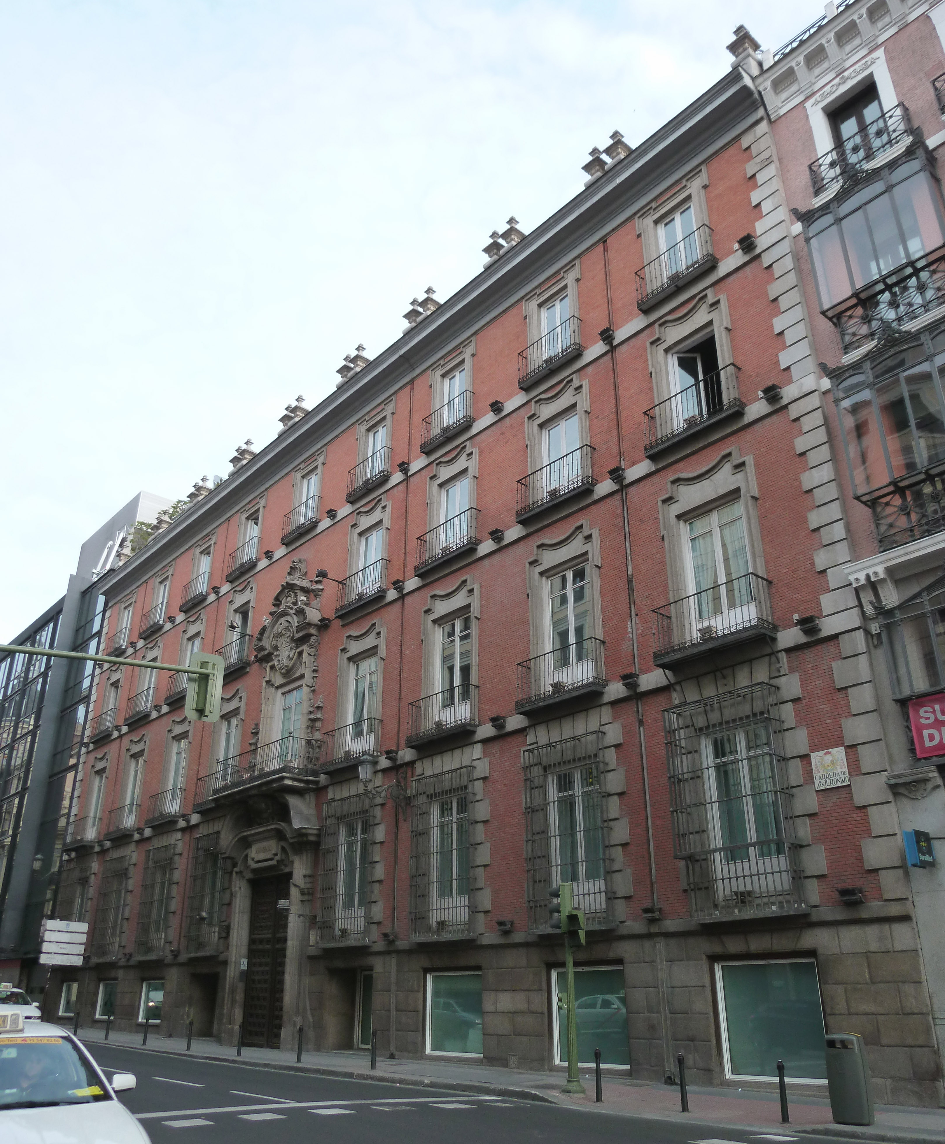 Façade of the Palace of the marquis of Miraflores, at 19 Carrera de San Jerónimo (street) in Centro district in Madrid (Spain). Building projected by Pedro de Ribera and built from 1731 to 1732. It was reformed by Joaquin Sainz de los Terreros Gómez in the 1945 for the Insurance Company Hispano Americana Atlantide.